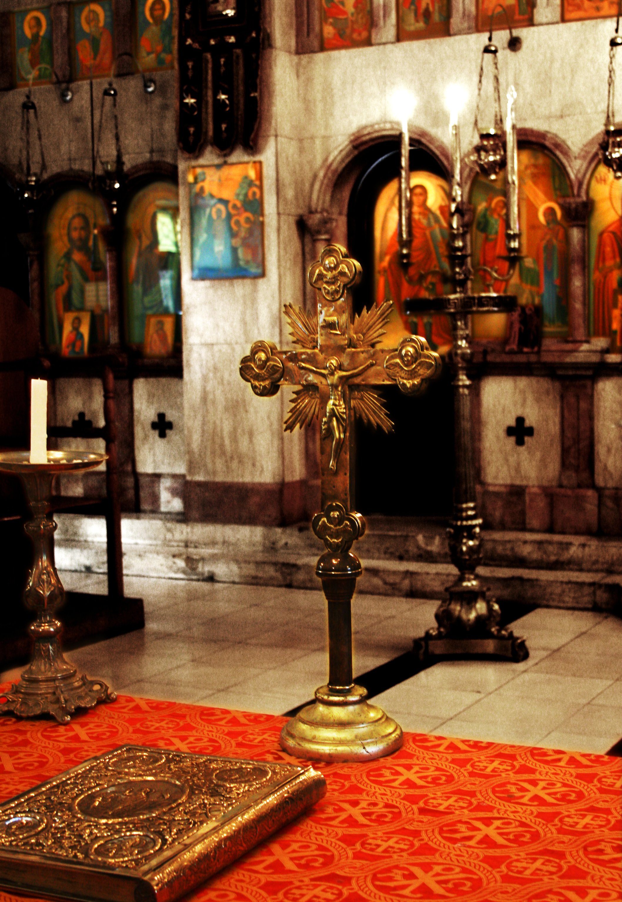 This picture was taken inside a Greek Orthodox Church in Amman Jordan